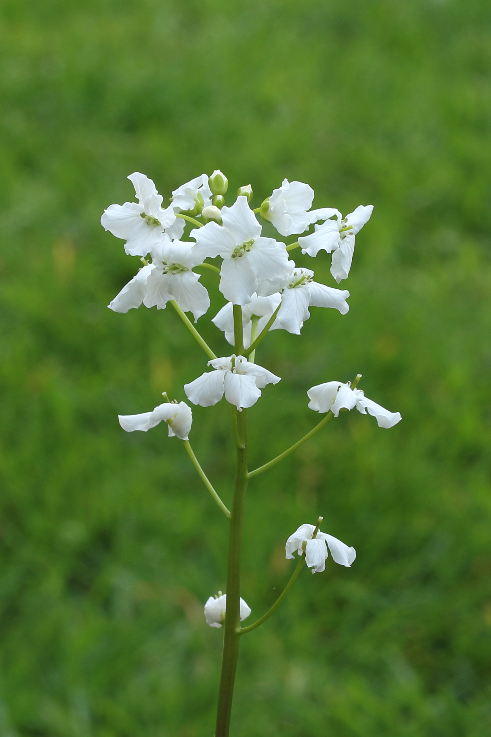 Cardamine trifolia. Valuable evergreen ground cover.